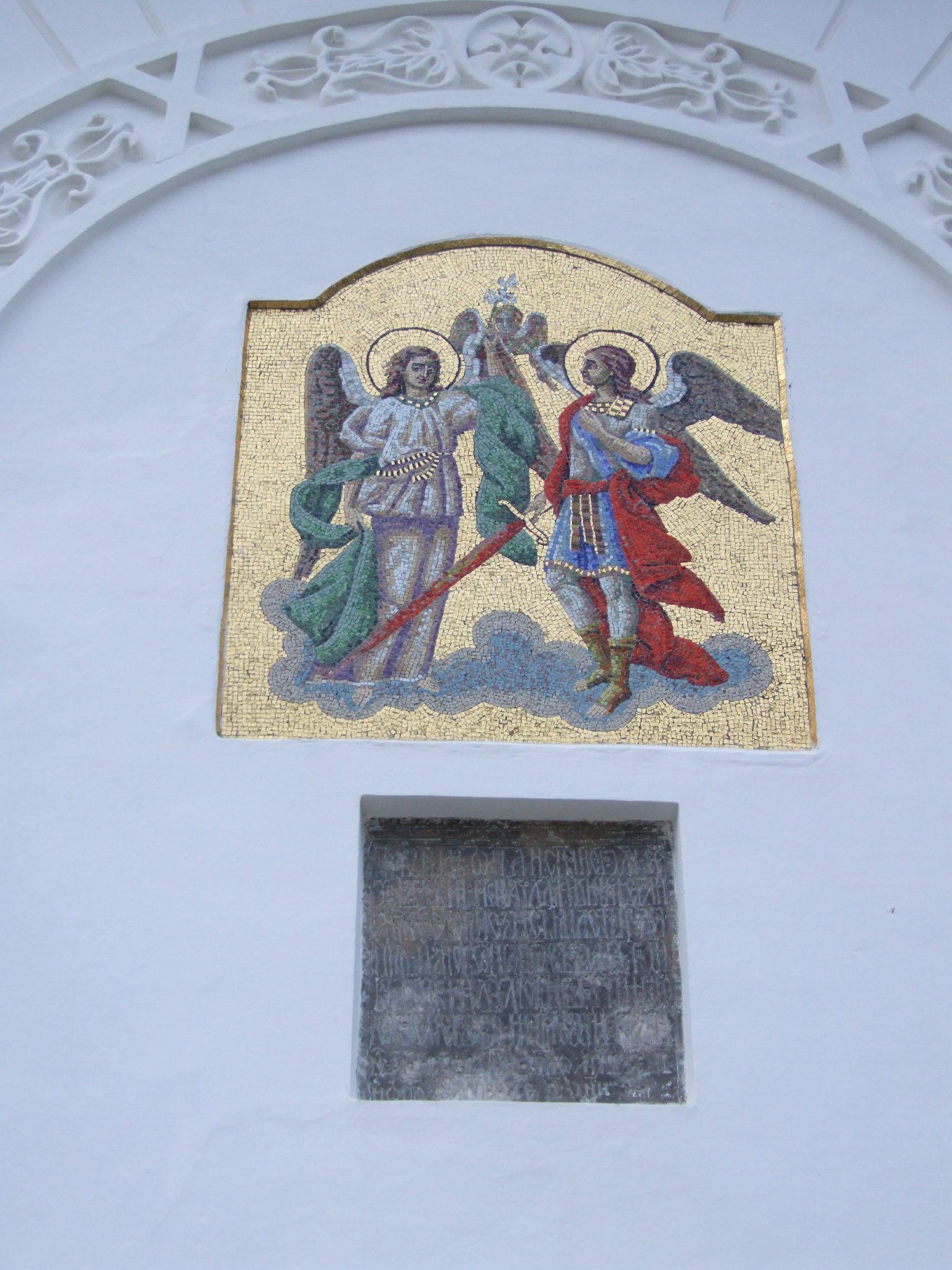 Monastery of Agapia, Romania